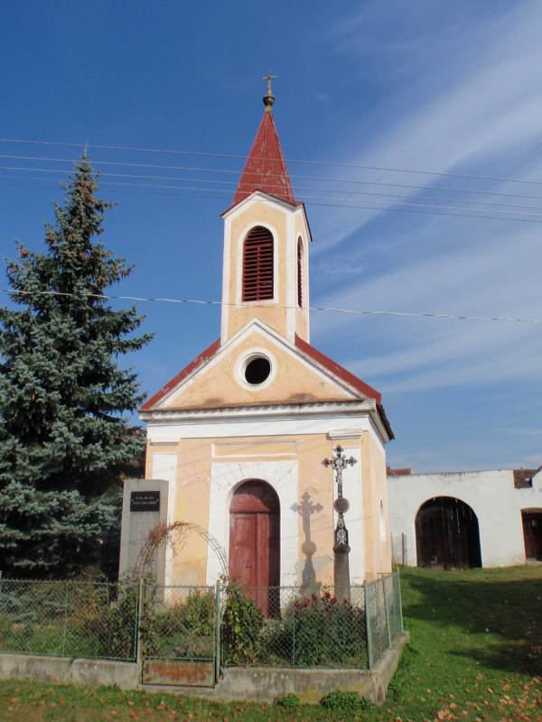 EU CR HORNI PORICI OKRES STRAKONICE